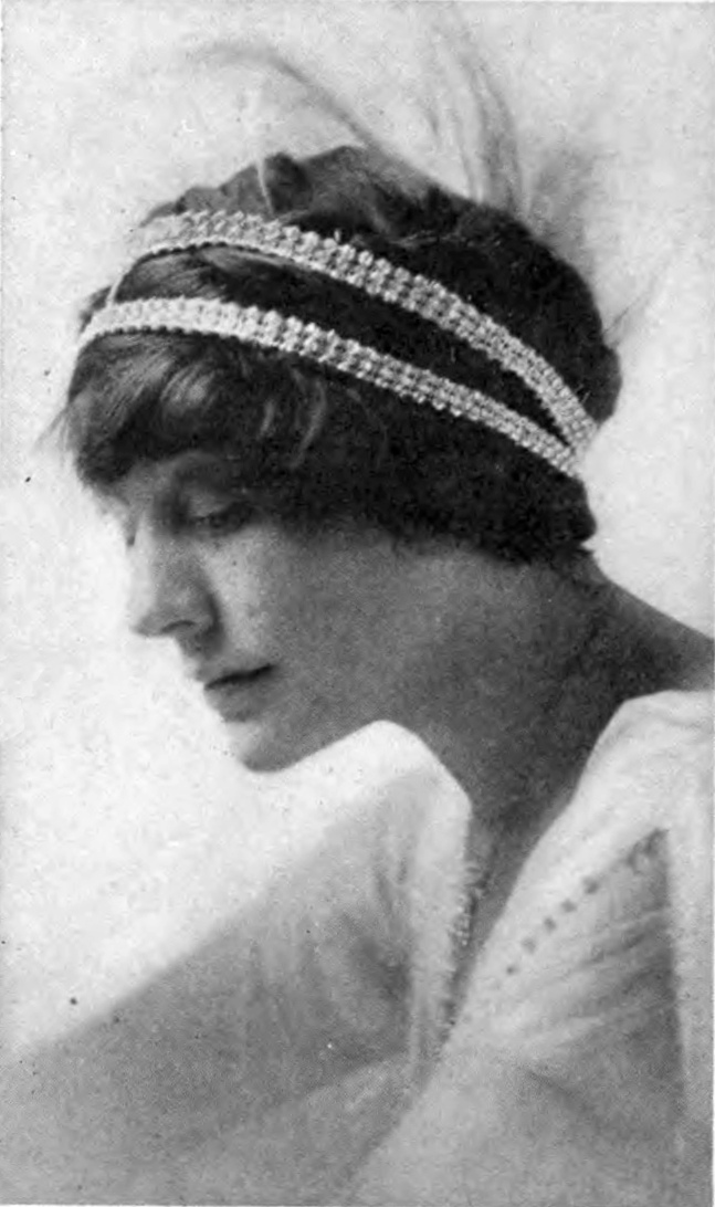 Musical actress Elizabeth Brice